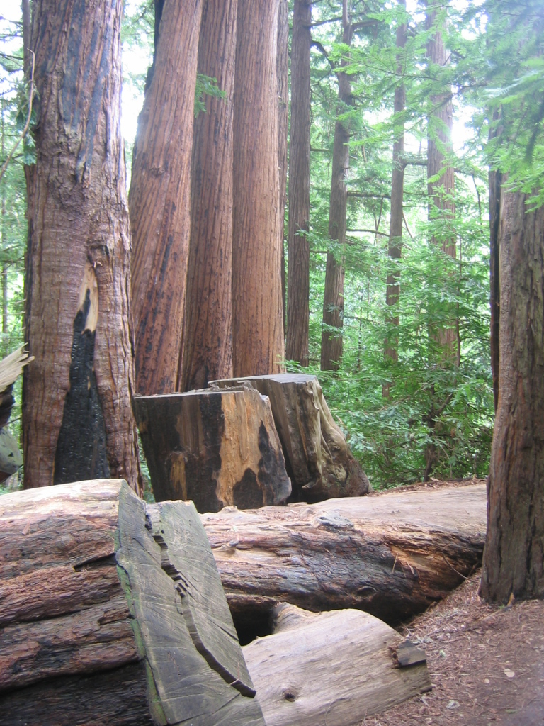 Pfeiffer Big Sur State Park, California, USA